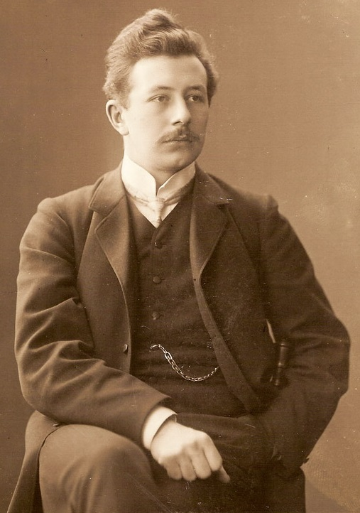 A young Fredrik Böök (1883-1961), Swedish professor of literary history at Lund University 1920-24, a literary critic and writer. Member of the Swedish Academy 1922-1961.